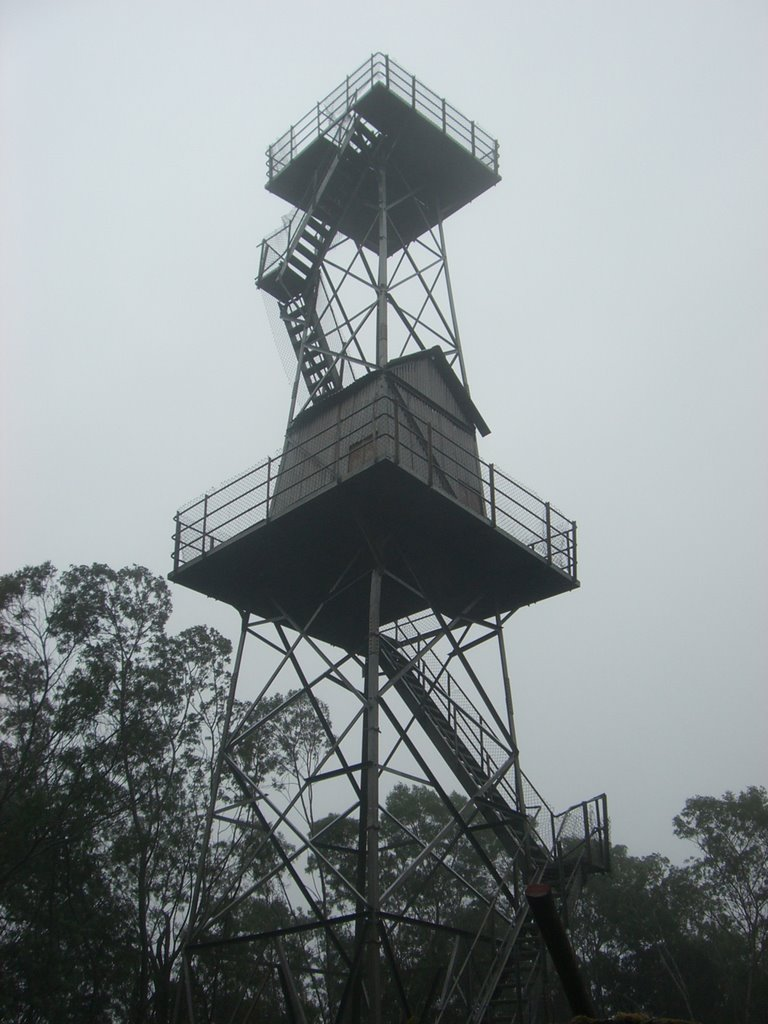 Vandaravu Observation Tower has corrugated steel shed on first level that may be used for sleeping if necessary